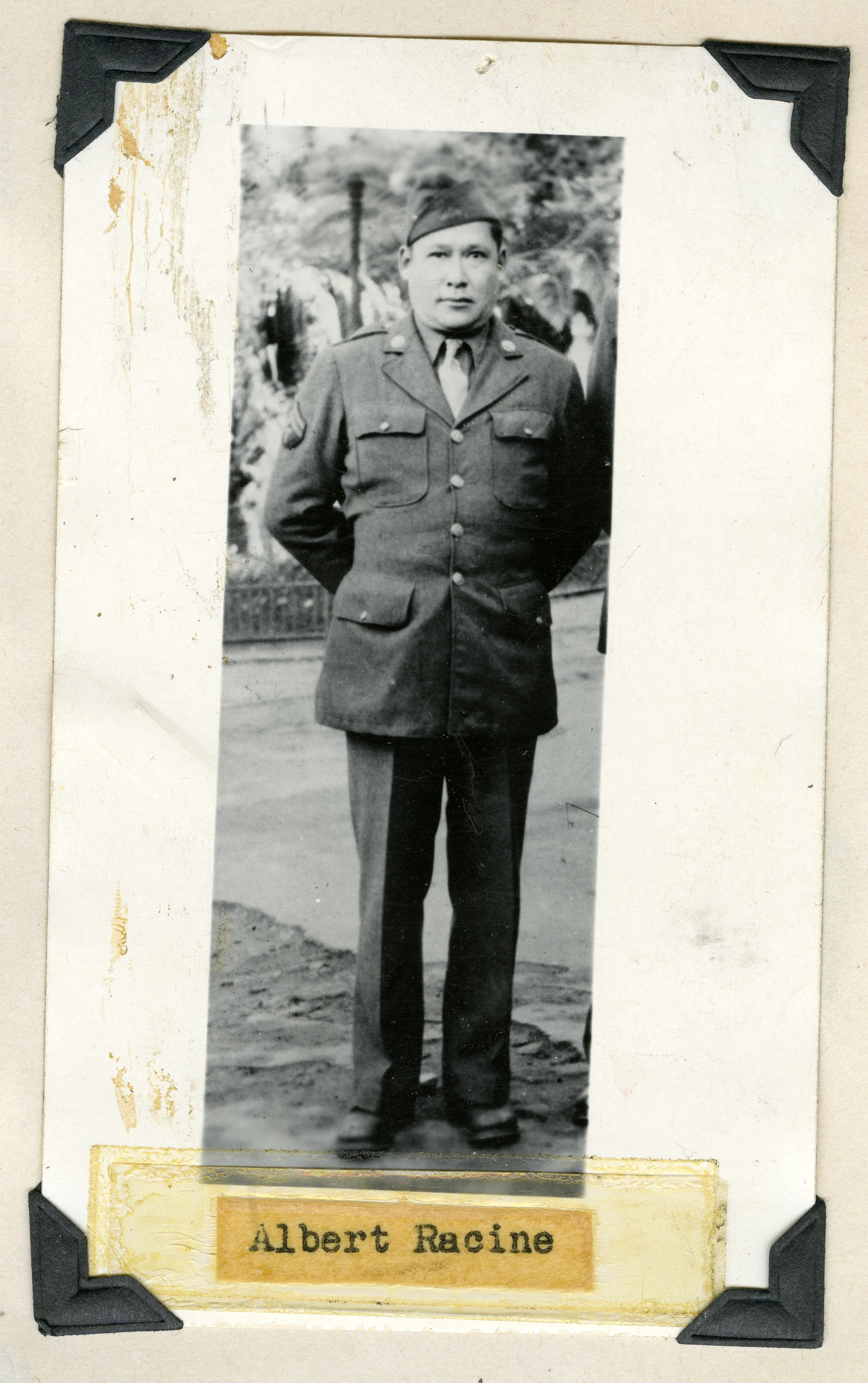 Albert Racine (1909-1984) in his army uniform during WWII.